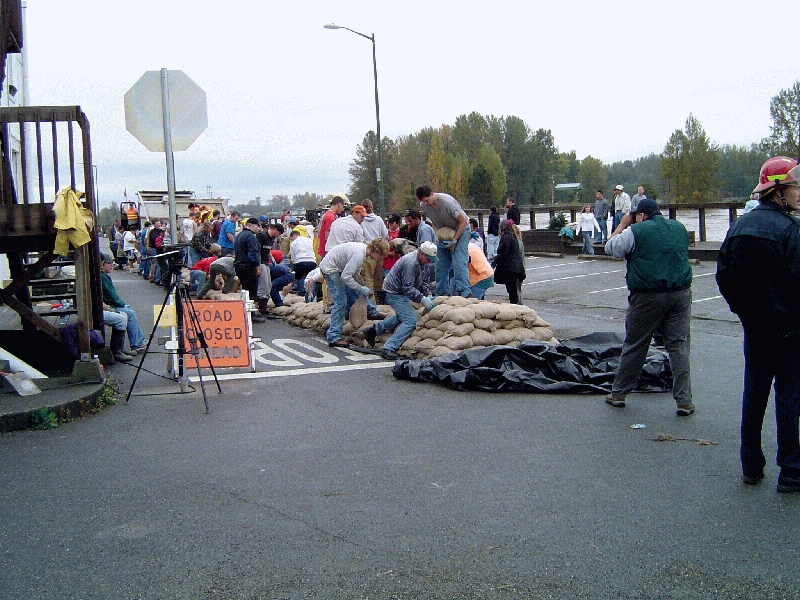 The townspeople of Mount Vernon, Washington build a sandbag dike in anticipation of a flood on the Skagit River.